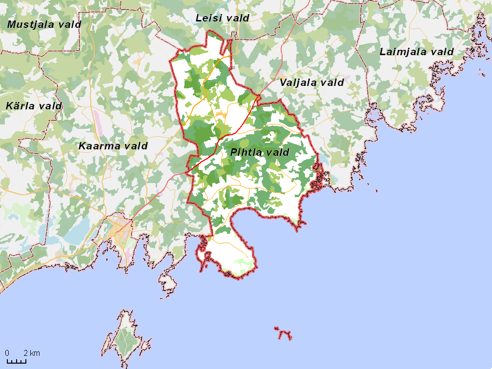 Map of municipality in Estonia